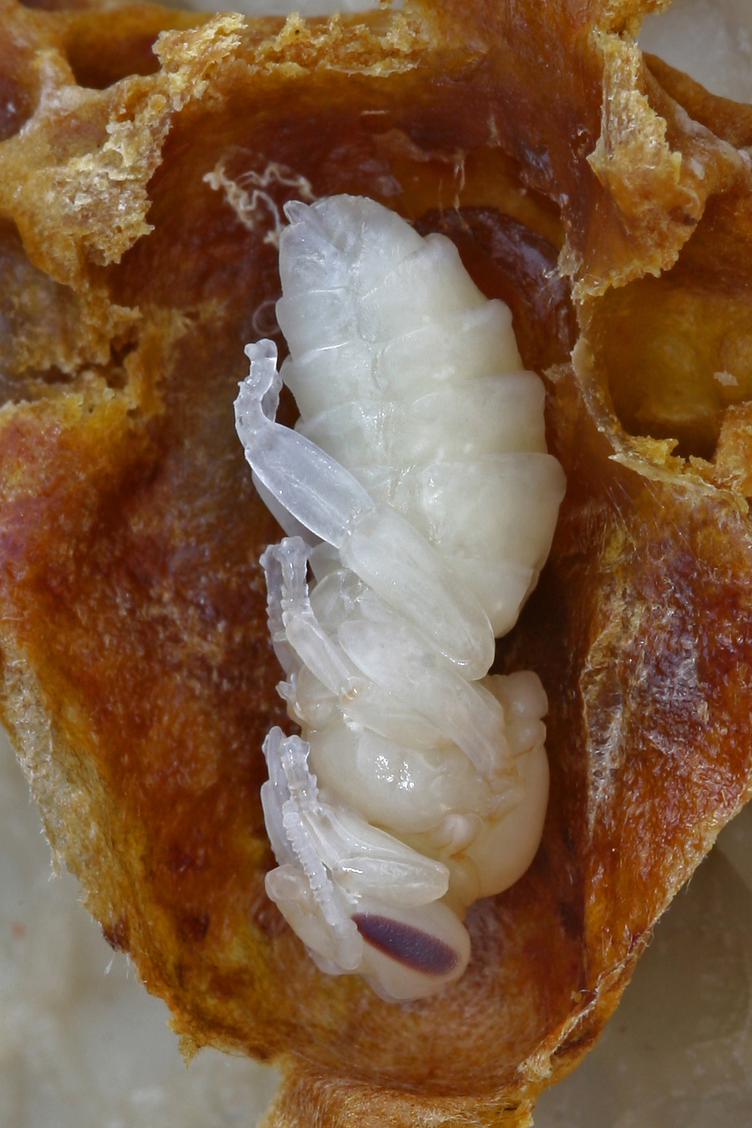 A queen cell was opened to show a queen pupa of the Western honey bee.